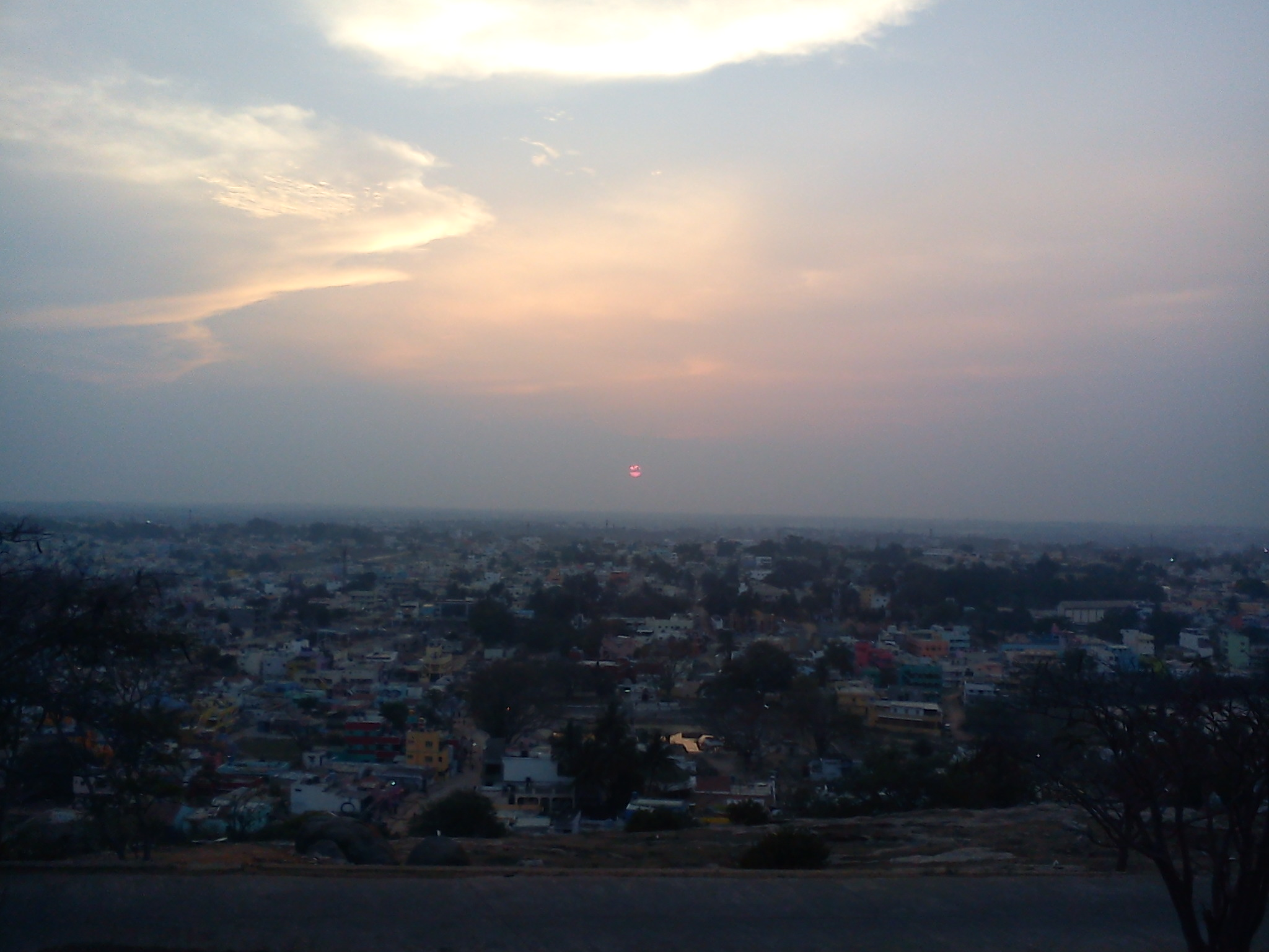 Hosur City view from hills